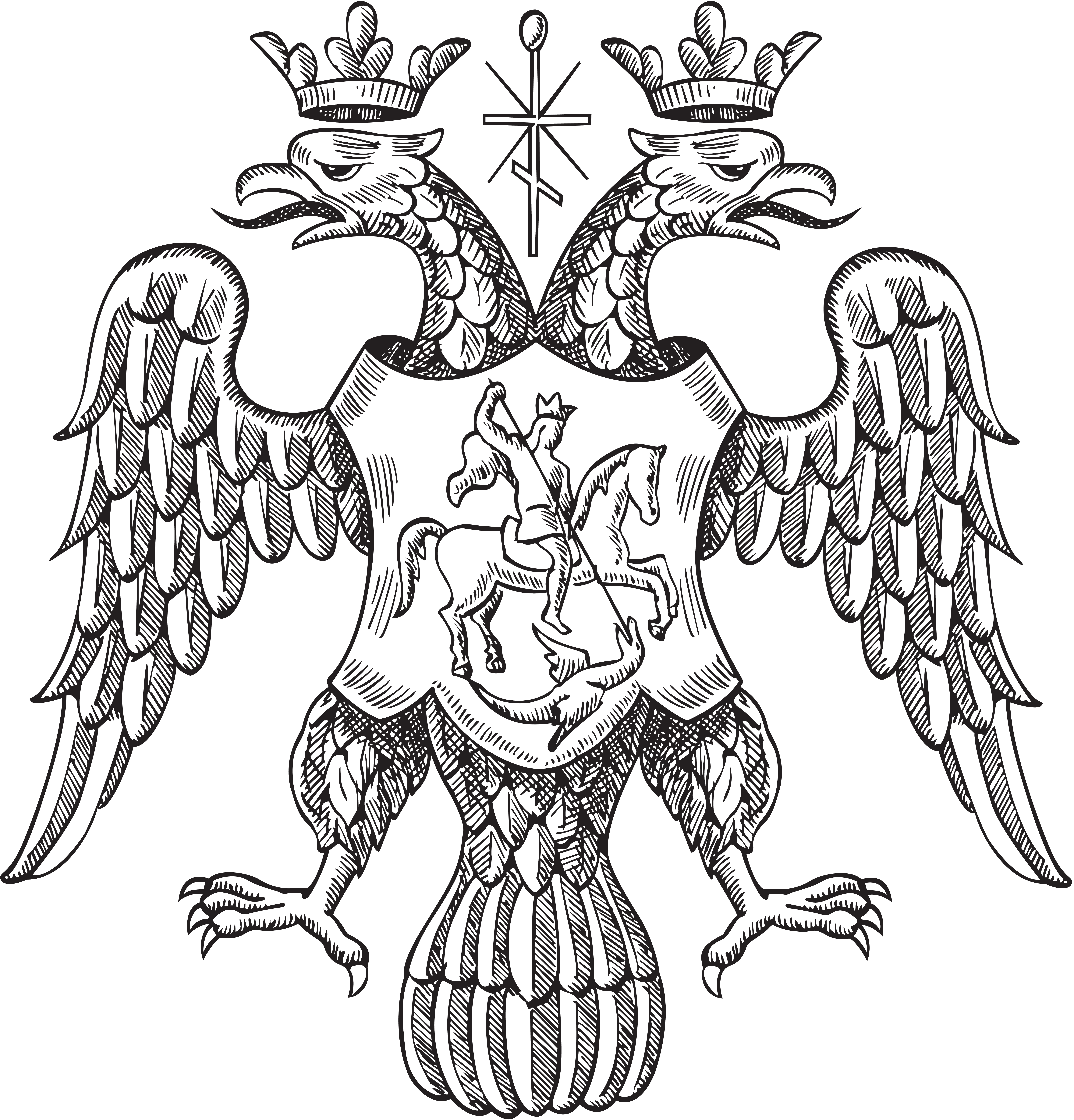 Russian coat of arms during the reign of Ivan Grozny, 1589. Moscow coat of arms appears as a part of it.